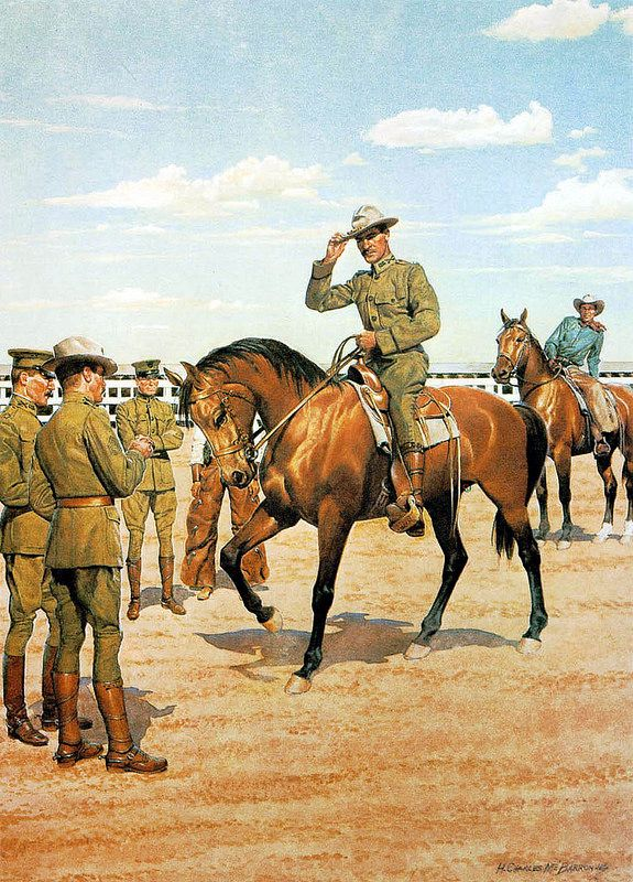 Remount Depot, Fort Reno, Oklahoma, 1908. Capt. Letcher H. Hardeman can be seen in the center, astride one of the horses at the remount depot he oversaw at Ft. Reno. This depot was the first in a series of remount depots established to supply the Army with a sufficient supply of horses.